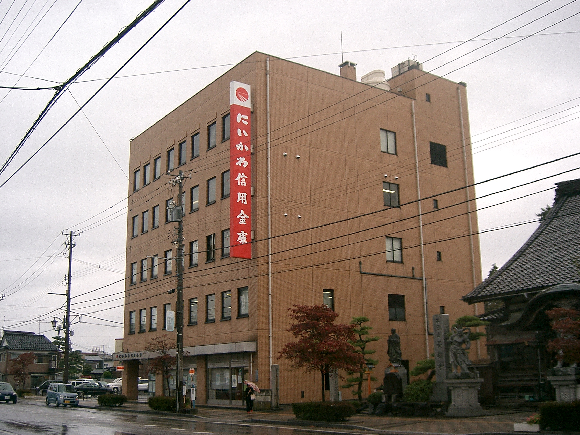 Head office of Niikawa Shinkin Bank